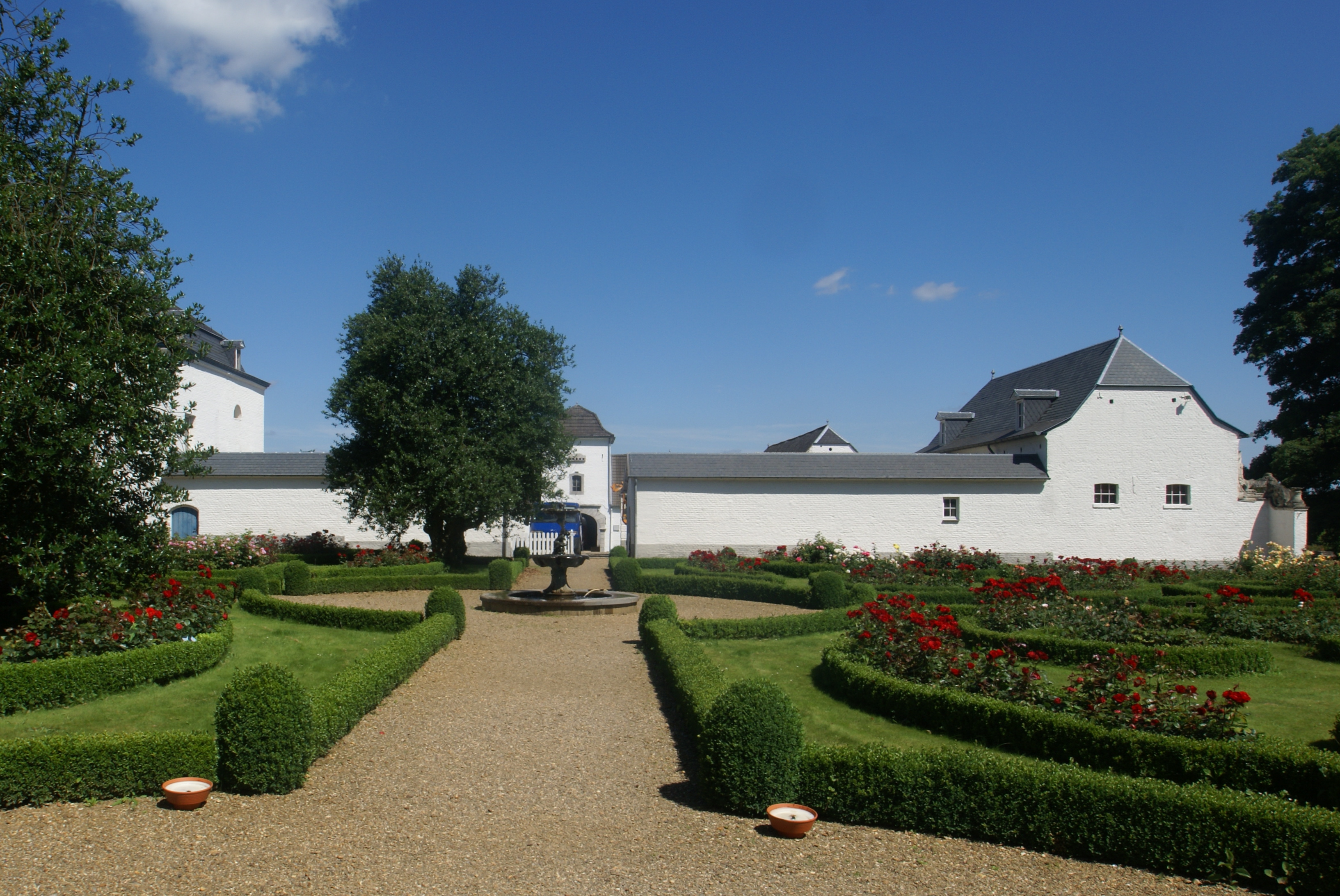 Genoelselderen (Belgium): Farm